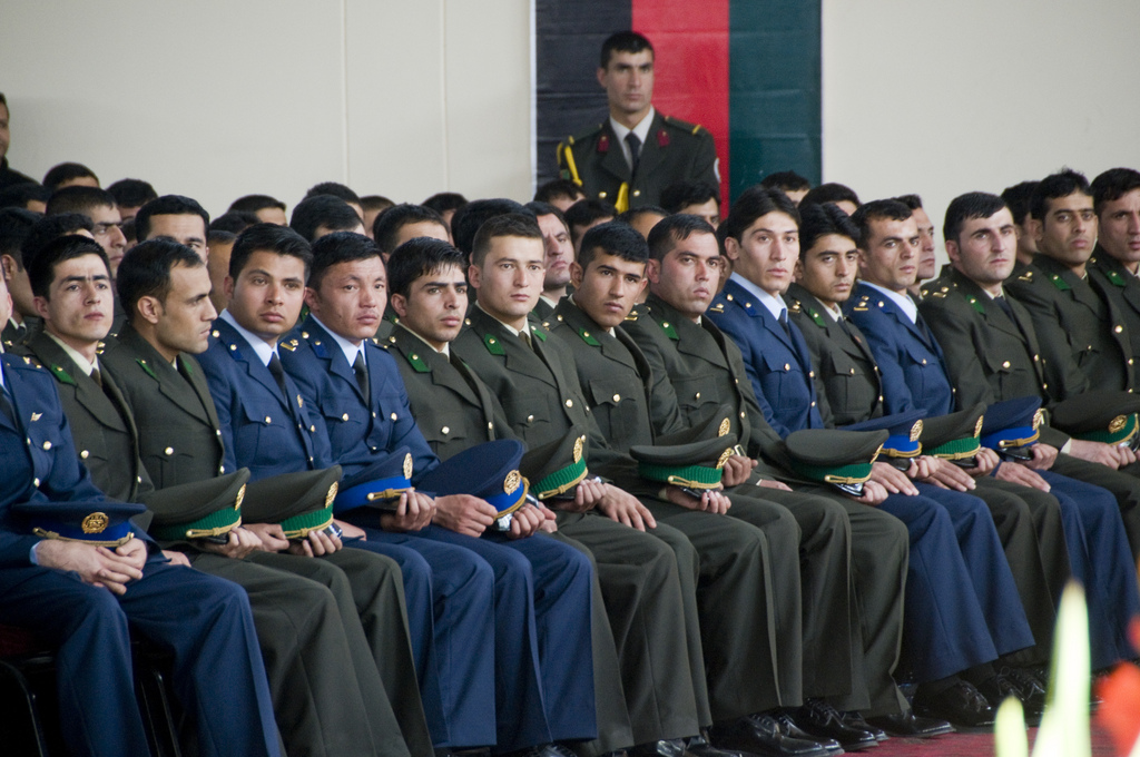 100318-F-1020B-101 Kabul - The National Military Academy of Afghanistan class of 2010 listens as Afghan President Hamid Karzai gives a speech during their graduation ceremony March 18, 2010. Only the second class to graduate from the academy, which is modeled after the United States Military Academy at West Point, these 212 new officers will join the Afghan National Army as lieutenants. (U.S. Air Force photo by Staff Sgt. Sarah Brown/RELEASED)